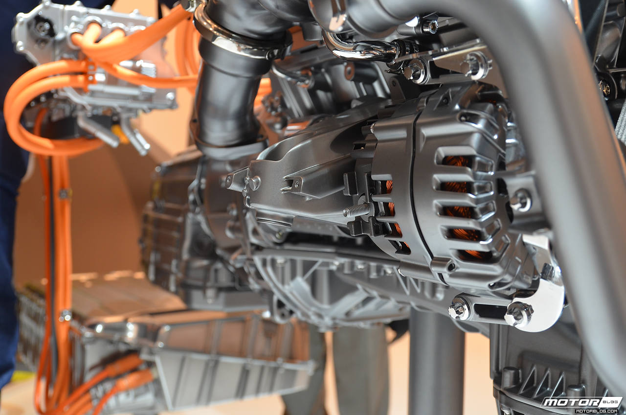 IAA Frankfurt 2013: Mercedes-Benz S 500 Plug-in Hybrid / Photo: Raphael Jahn ______________________ Please feel free to use this image for FREE under the Creative Commons (CC) licence. However, if you use the image, pls set a backlink to and give credit as following: "Image: ". For highres images or any other inquiries pls contact mailto: . Thanks.